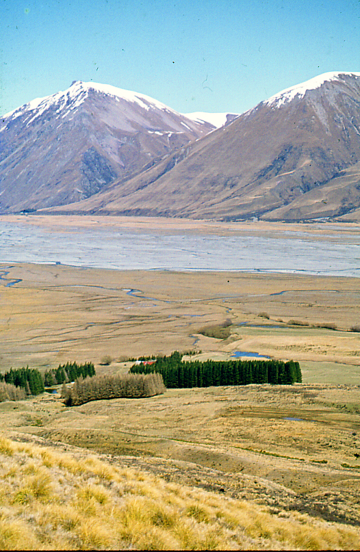 At this time still in New Zealand hands. Gary Joll sold it to Indonesian president Suharto's son, since when it has had a troubled and much publicised history - which has included denial of access to local hunters and climbers.